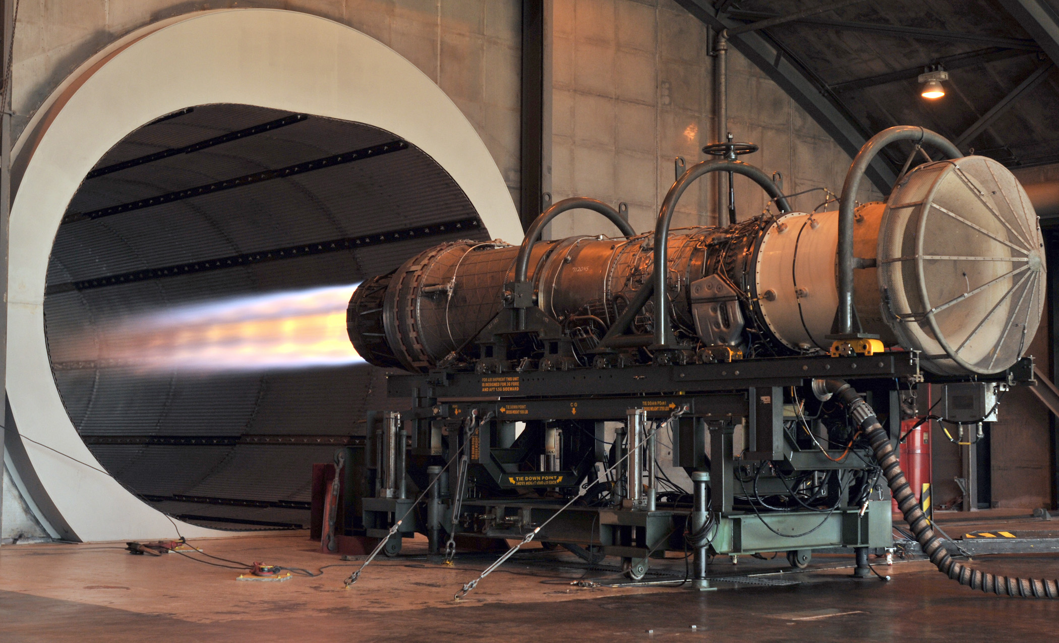 An afterburner glows on an F-15 Eagle engine following a repair during an engine test run November 10, 2010, at the Florida Air National Guard base in Jacksonville International Airport, Fla.